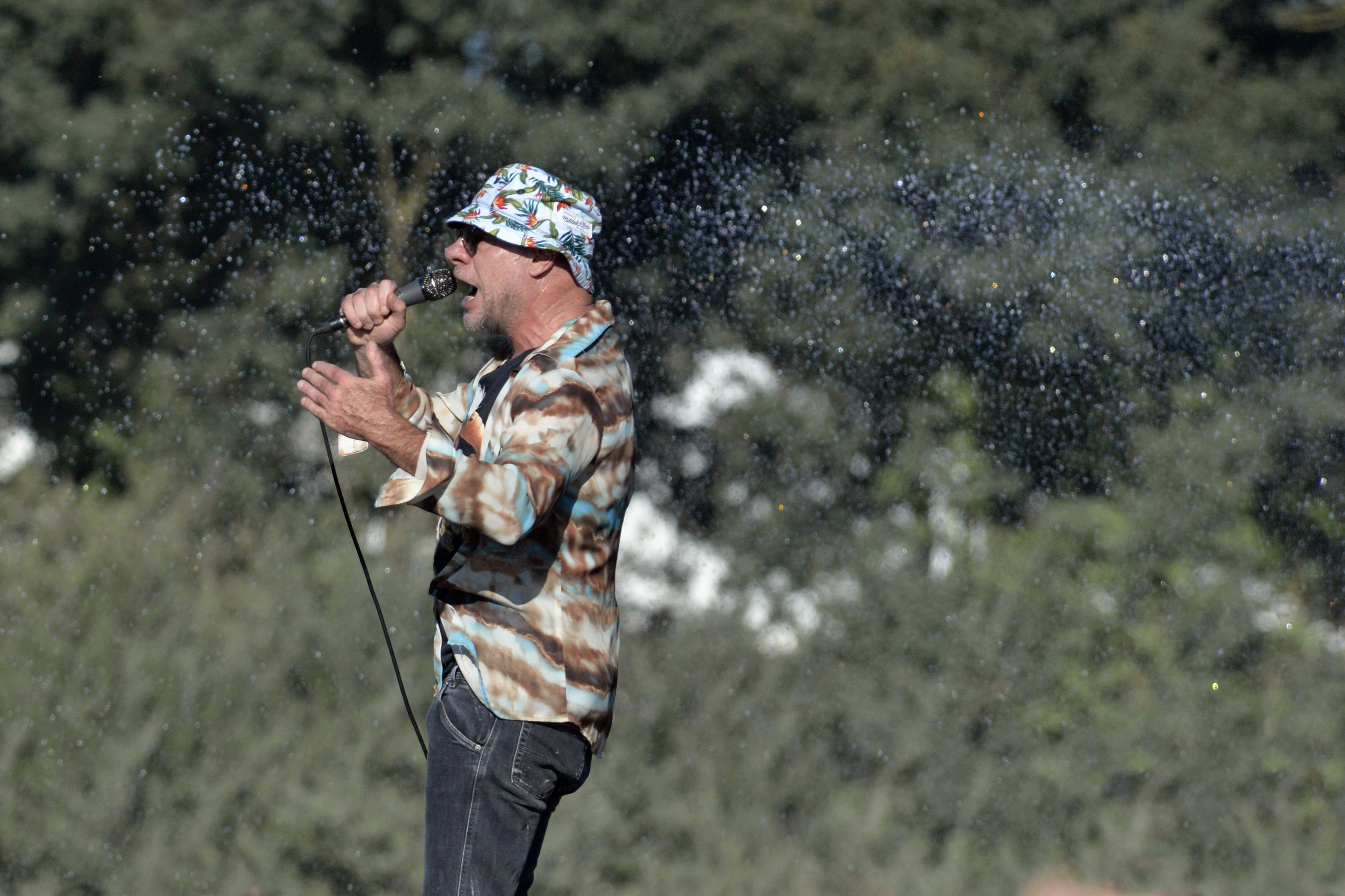 Trust show at 2017 Hellfest, France.